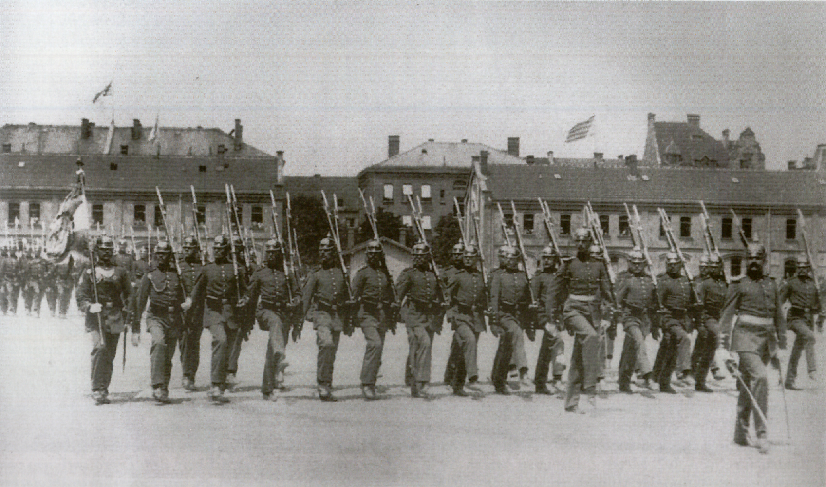 Parade of bavarian troops in front of the munich „Marsfeldkaserne“ barracks.